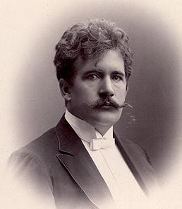 The image of Norwegian conductor Johan Halvorsen (1864-1935)